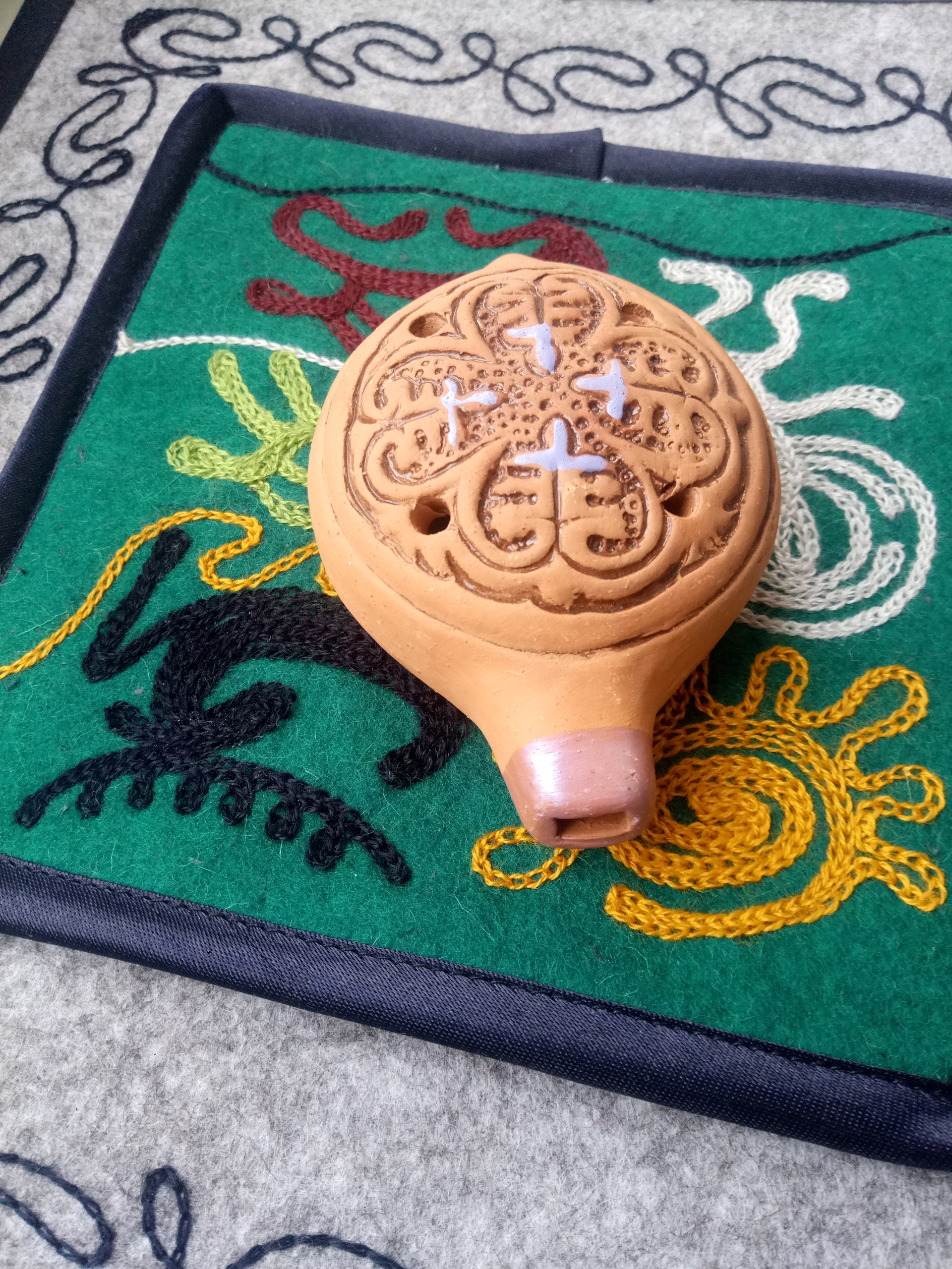 Chopo choor is a Kyrgyz and Kazakh folk musical instrument of various shapes. It is still played by locals and sold as a souvenir.